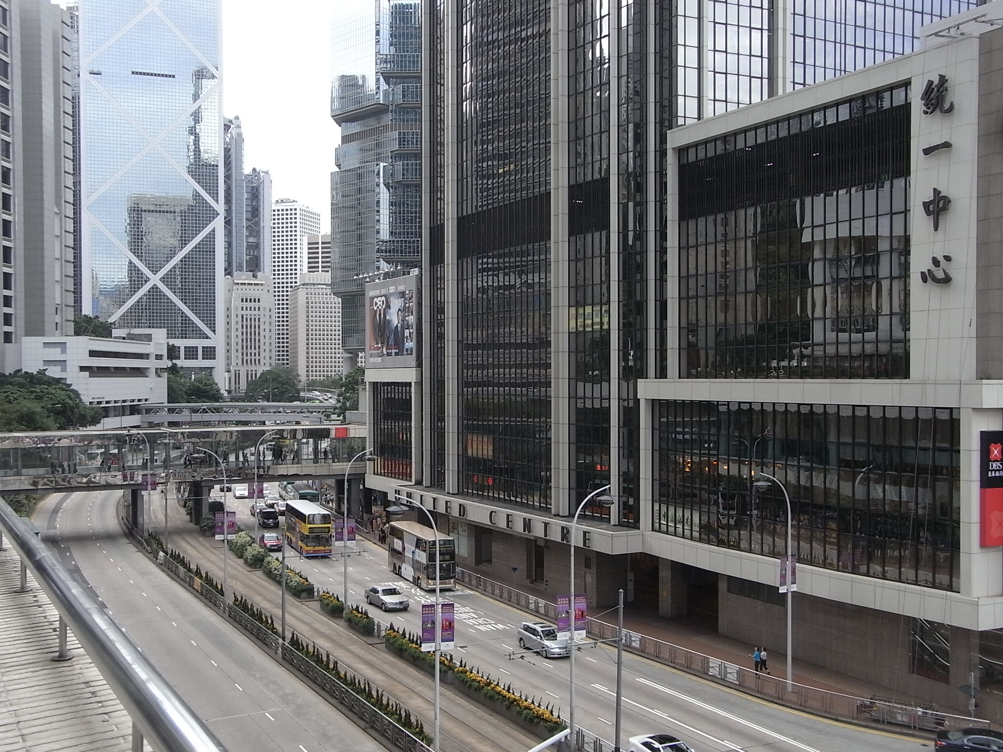 香港島金鐘 金鐘道 & 統一中心